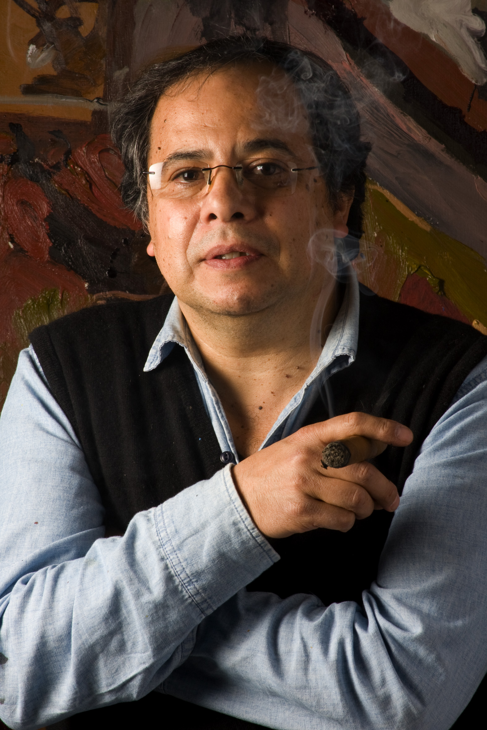 Jazzamoart